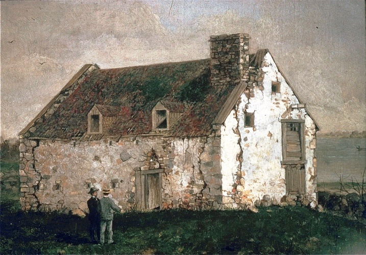 Painting, Cuillerier's Fort, Lachine, Henry Richard S. Bunnett, 1885, Oil on canvas, 20.3 x 30.8 cm